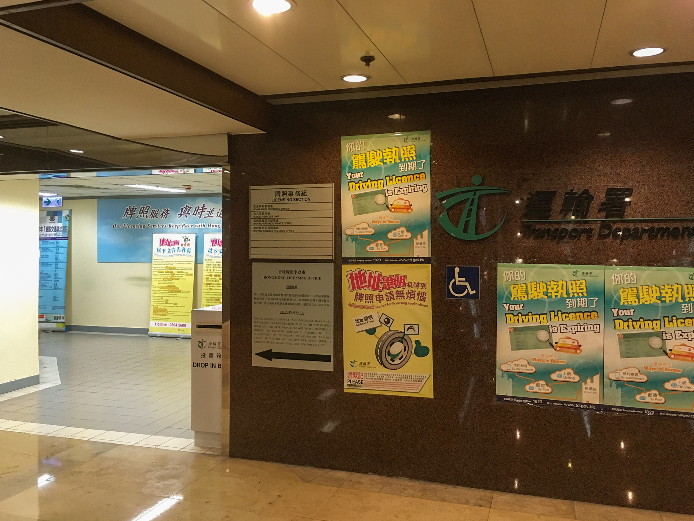 Transport Department Hong Kong Licensing Office